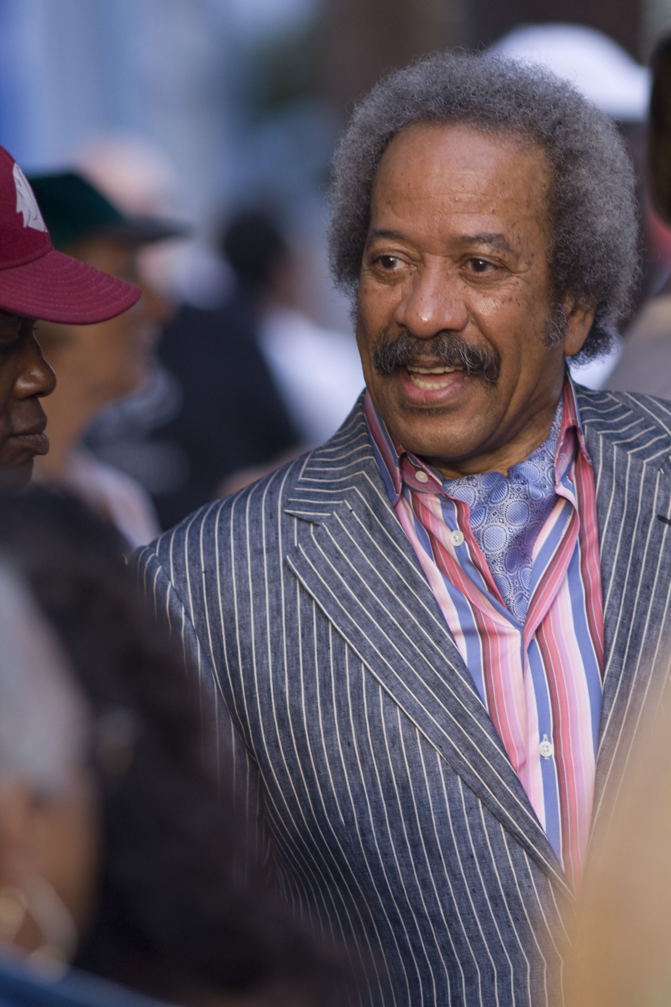 Allen Toussaint at 2009 Freret Street Festival, New Orleans